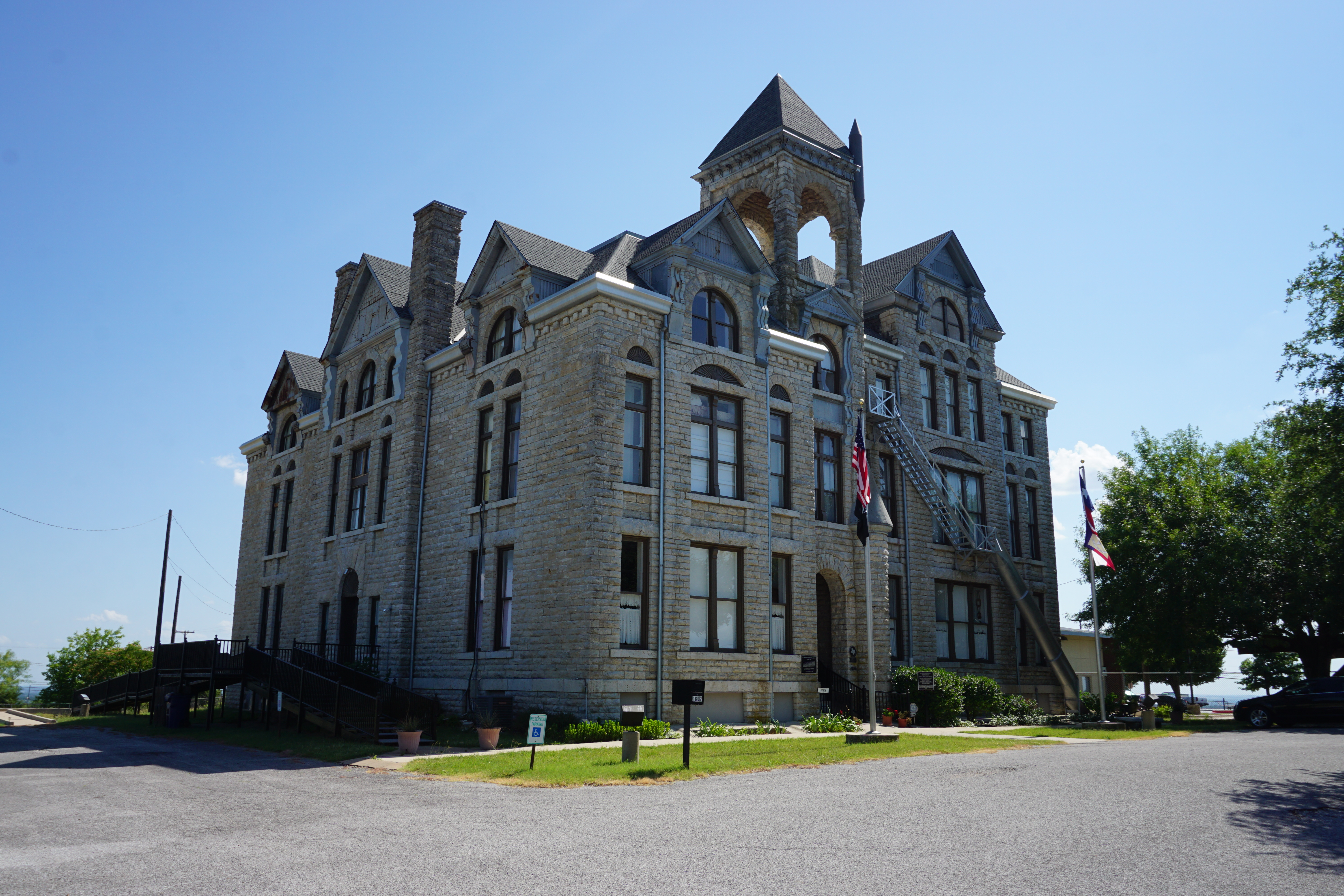 The Wise County Heritage Museum (the former Administration Building of Decatur Baptist College) in Decatur, Texas (United States).